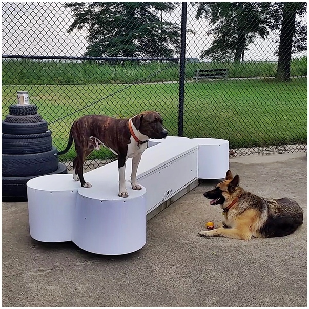 Bone Bench, one of six benches